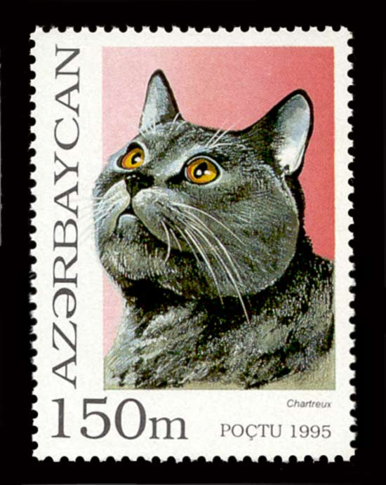 Stamp of Azerbaijan